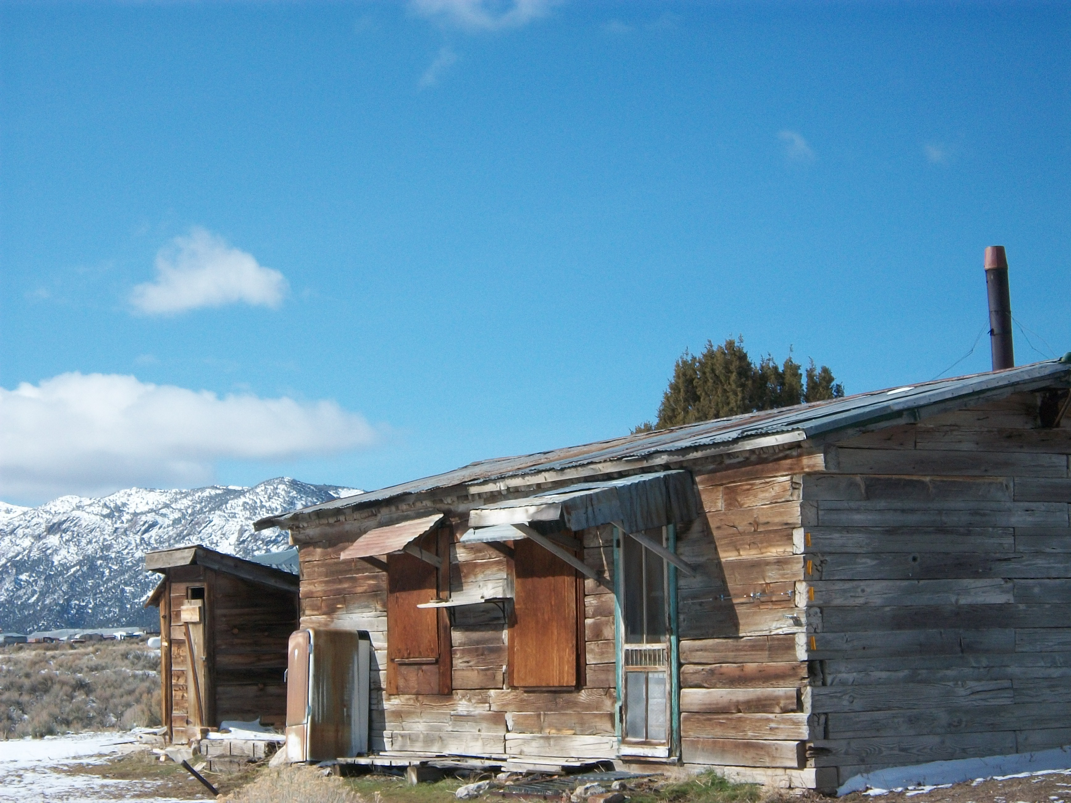 An abandoned building in Cherry Creek.